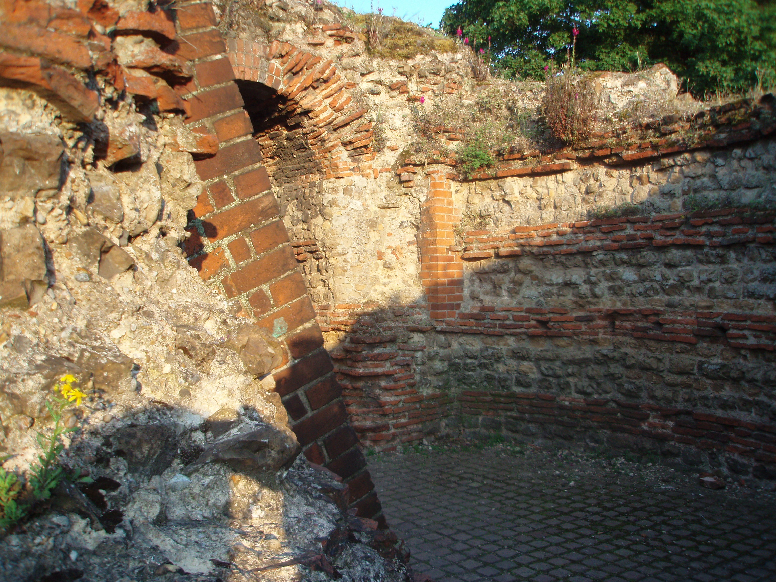 A lovely Roman Wall in Colchester